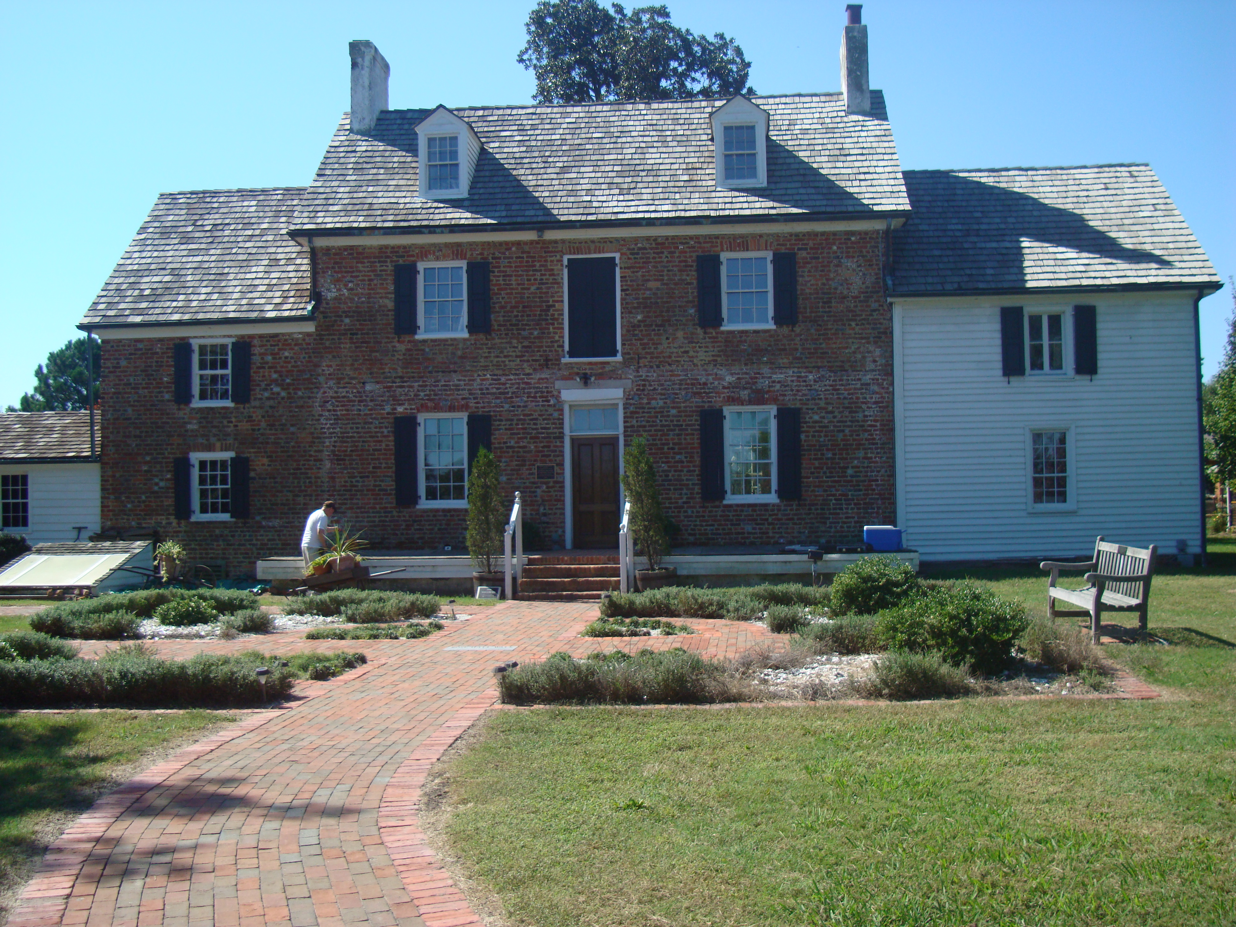 Front of the Ferry Plantation House historical plantation-era museum in Virginia Beach, Virginia.